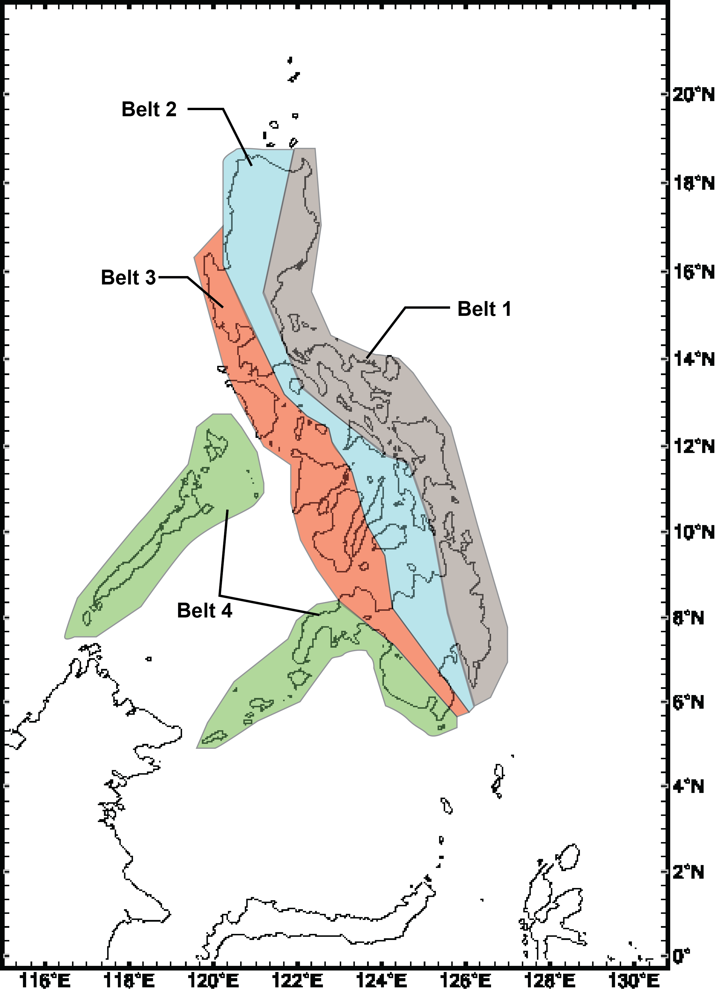 Ophiolite belts in Philippine mobile belt, which was characterised by Yumul (2007).